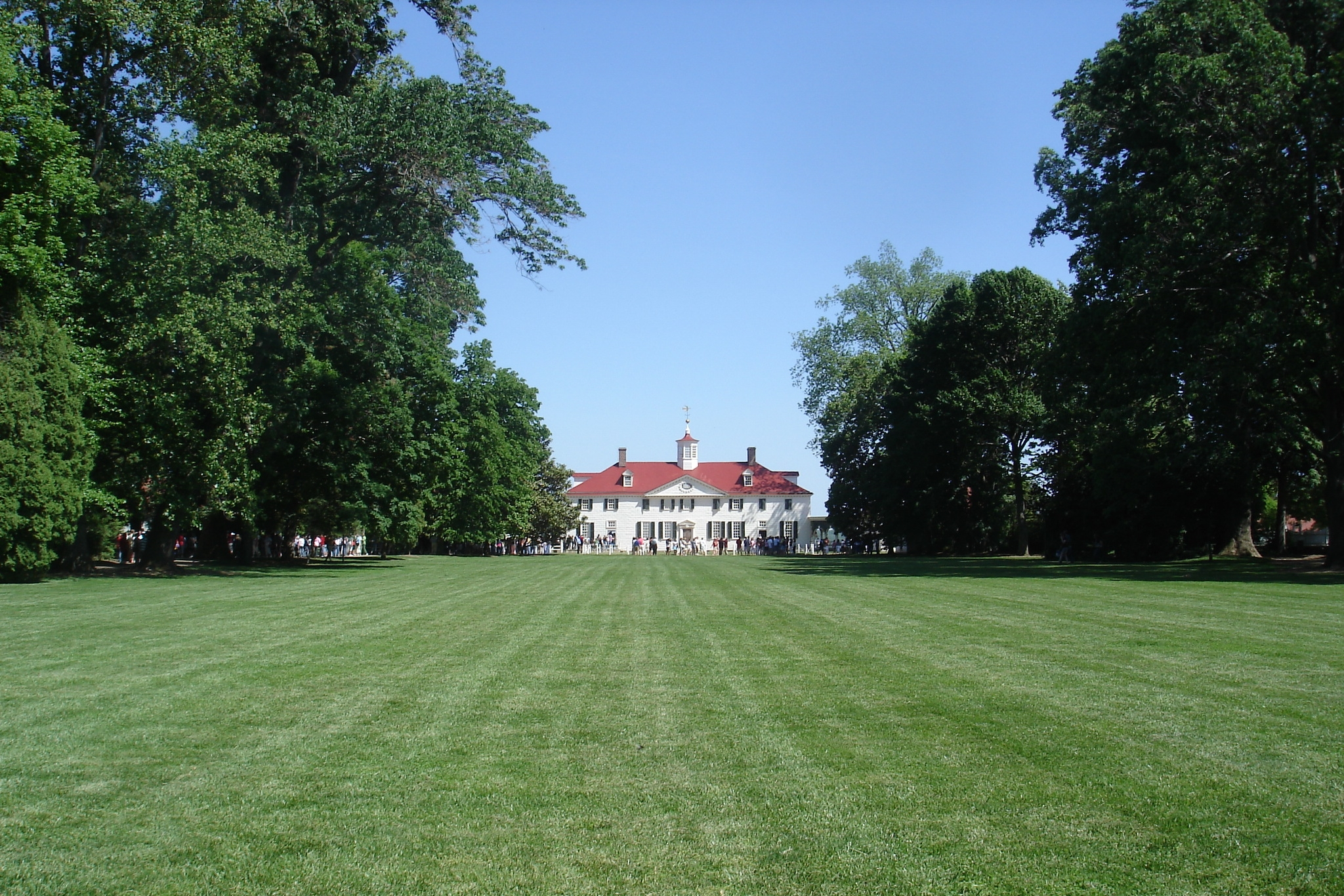 Mount Vernon, the house of George Washington, viewed from the front lawn.